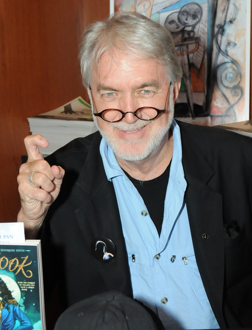 James V. Hart at the 2011 Dallas International Film Festival.